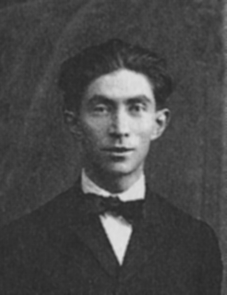 Studio photograph of Romanian poet, philosopher and director Benjamin Fondane as a teenager.